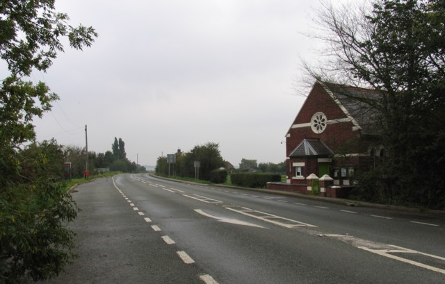 The Fosse Way passes the Brough Methodist church Until a new bypass was built this was part of the A46. The Roman road station of CROCOCALANA was sited in the vicinity. for some details.